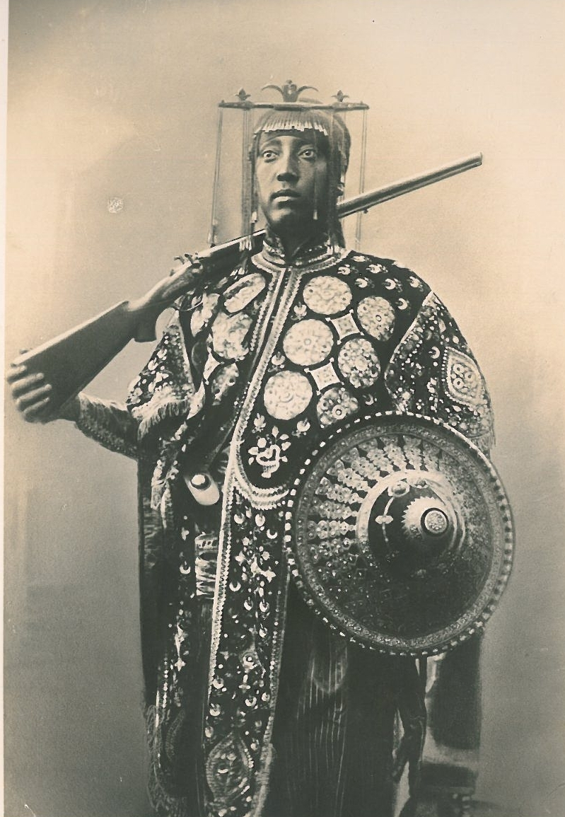 Menelik II Prince of Shoa and Negus Negesti